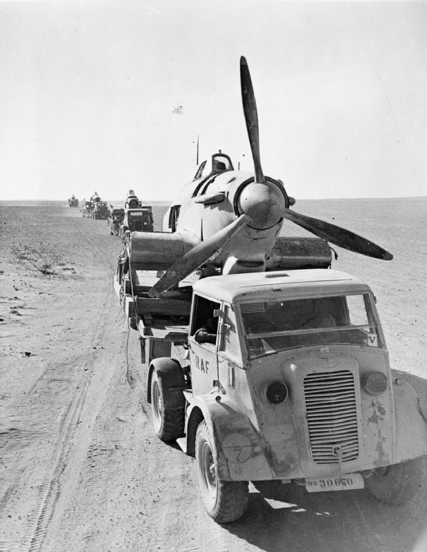 Royal Air Force Operations in the Middle East and North Africa, 1939-1943 Vehicle tenders of No. 53 Repair and Salvage Unit, transport salvaged Hawker Hurricane fuselages through the Western Desert for repair at the Hurricane Repair Section, Helwan, Egypt.